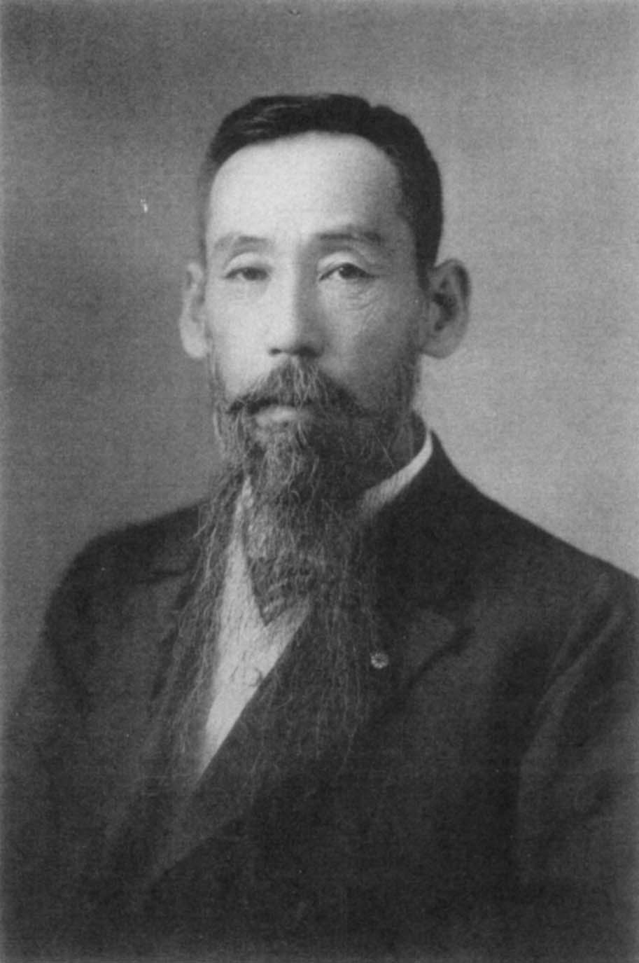 Hozumi Yatsuka, taken in August 1912.